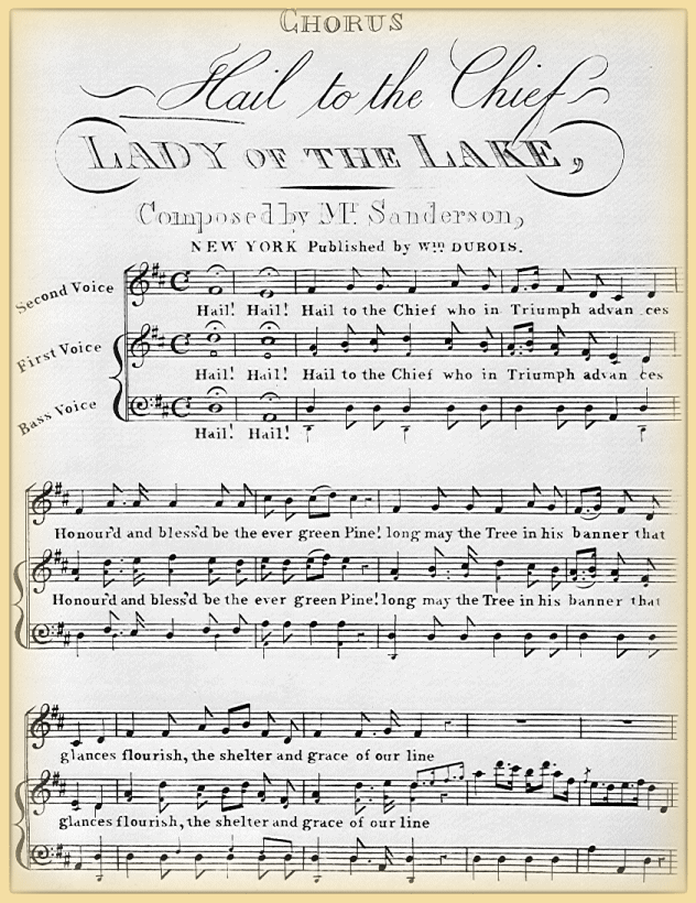 The author is a Mr Sanderson. This is a picture of the chorus of Hail to the Chief sheet music. The website where I found this image is